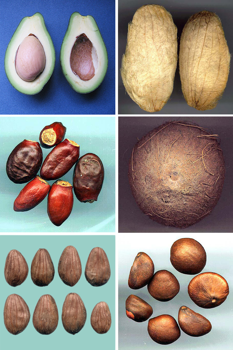 Recalcitrant tropical seeds